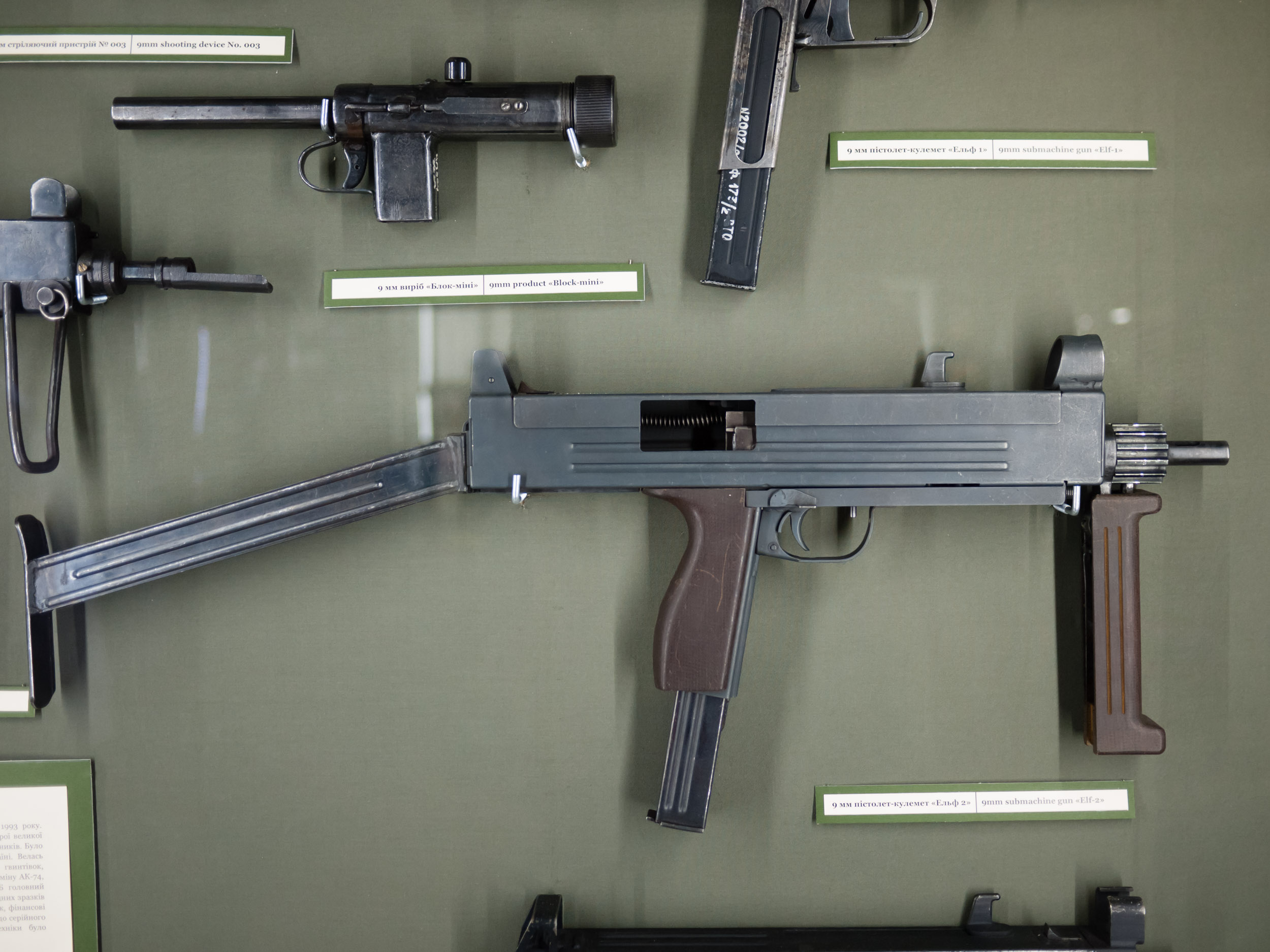 'Elf-2' 9mm submachine gun by Ihor Oleksiyenko, National Military-Historical Museum of Ukraine